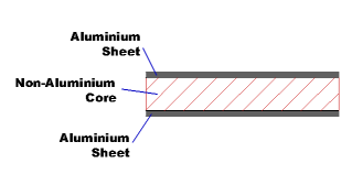 Aluminium Composite Panel Structure